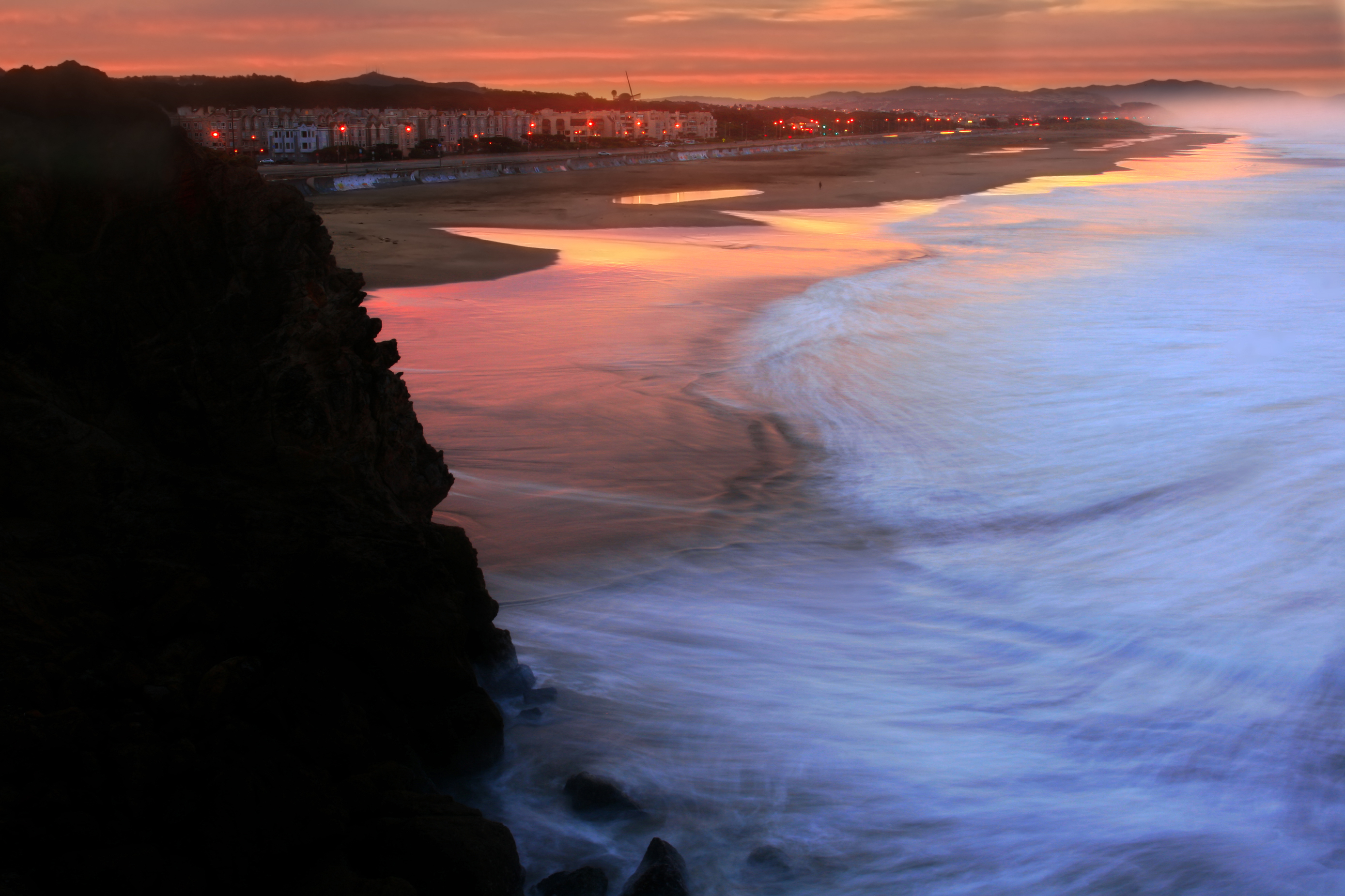 Ocean Beach in San Francisco at sunrise